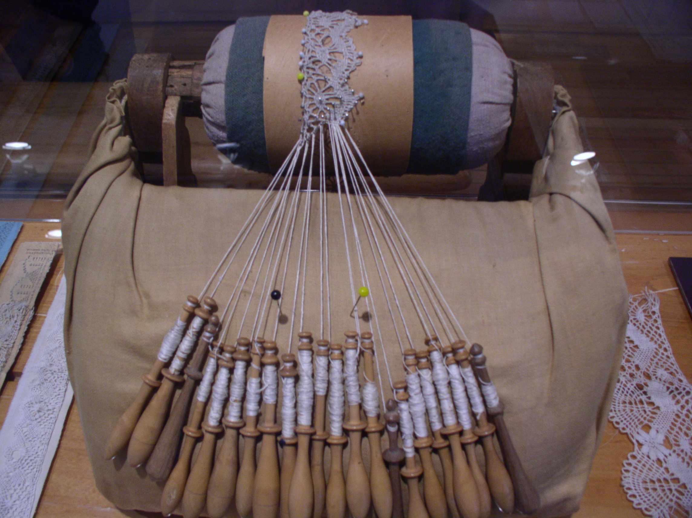 This is bobbin lacework in progress. Photo taken by me at the museum of the Ursuline Convent in Quebec City in March 2003.